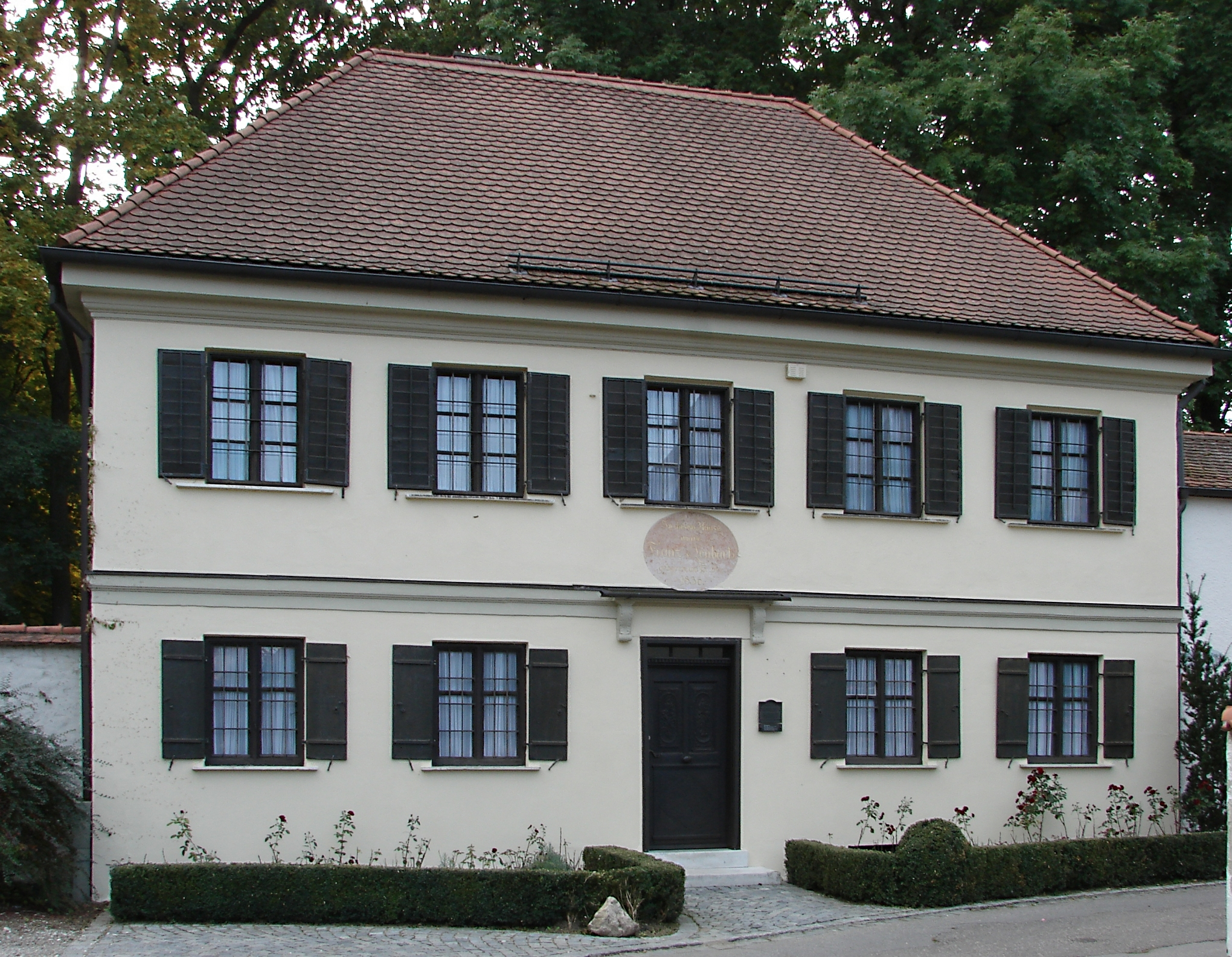 Schrobenhausen, house of birth of Franz von Lenbach.